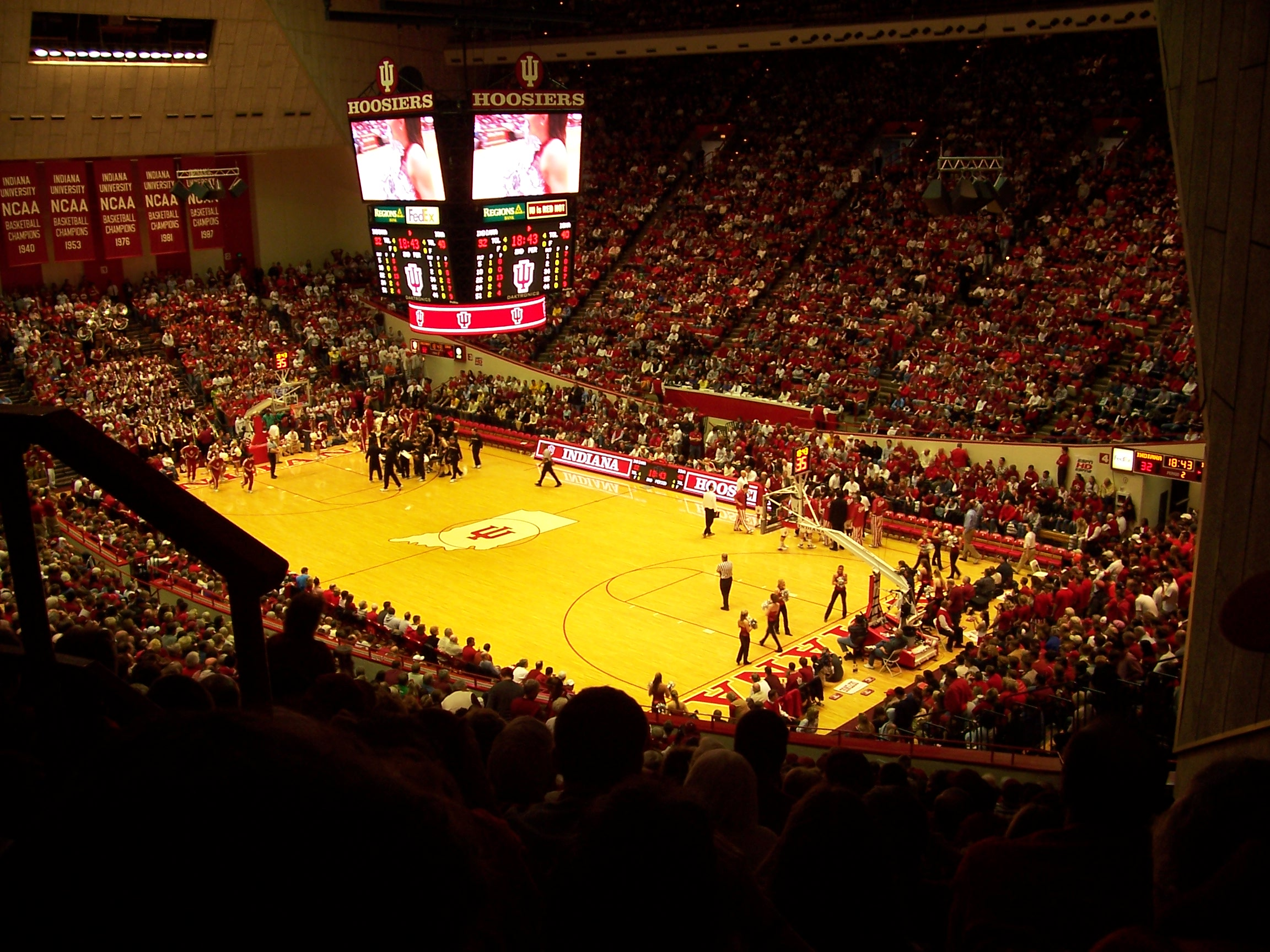 Center of the Basketball Universe